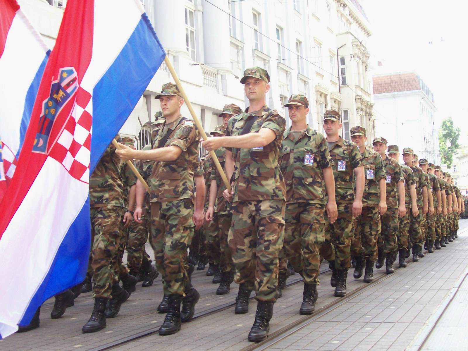 Croatian Army